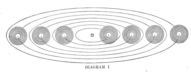 Solar_syst